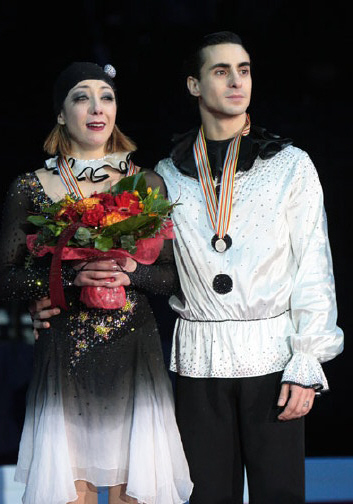 Federica Faiella & Massimo Scali during the ice dancing medals ceremony at the 2009 European Championships.